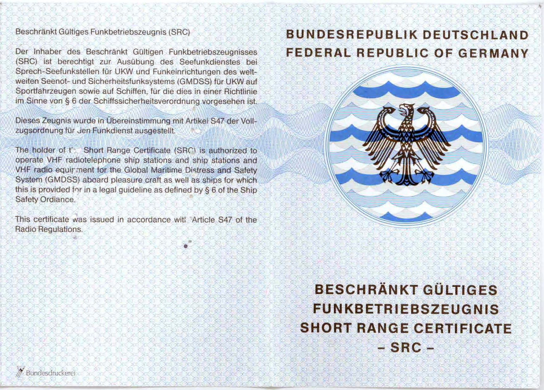 Short Range Certificate (LRC) VHF